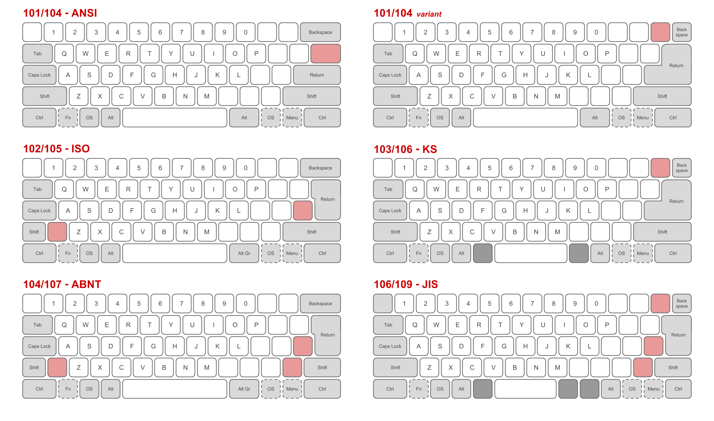 A comparison of common mechanical computer keyboard layouts. Keys that are not present in them all are highlighted in pink (alphanumeric) and dark-grey (modifier). Keys that are sometimes omitted are shown with interrupted outlines. Note that the 104th key on the ABNT layout is located in the numpad section and therefore not visible. From left to right, top to bottom: * 101 keyboard, common in North America, Asia, Oceania * 101 alternate, common in Asia and Russia * 102 keyboard, common in Europe, Latin America * 103 keyboard, used in South Korea * 104 keyboard, used in Brazil * 106 keyboard, used in Japan This image shows physical layouts as they often appear and may not fully represent indicated standards. The visual labels are only for general orientation and do not represent the layout of any specific country/language.